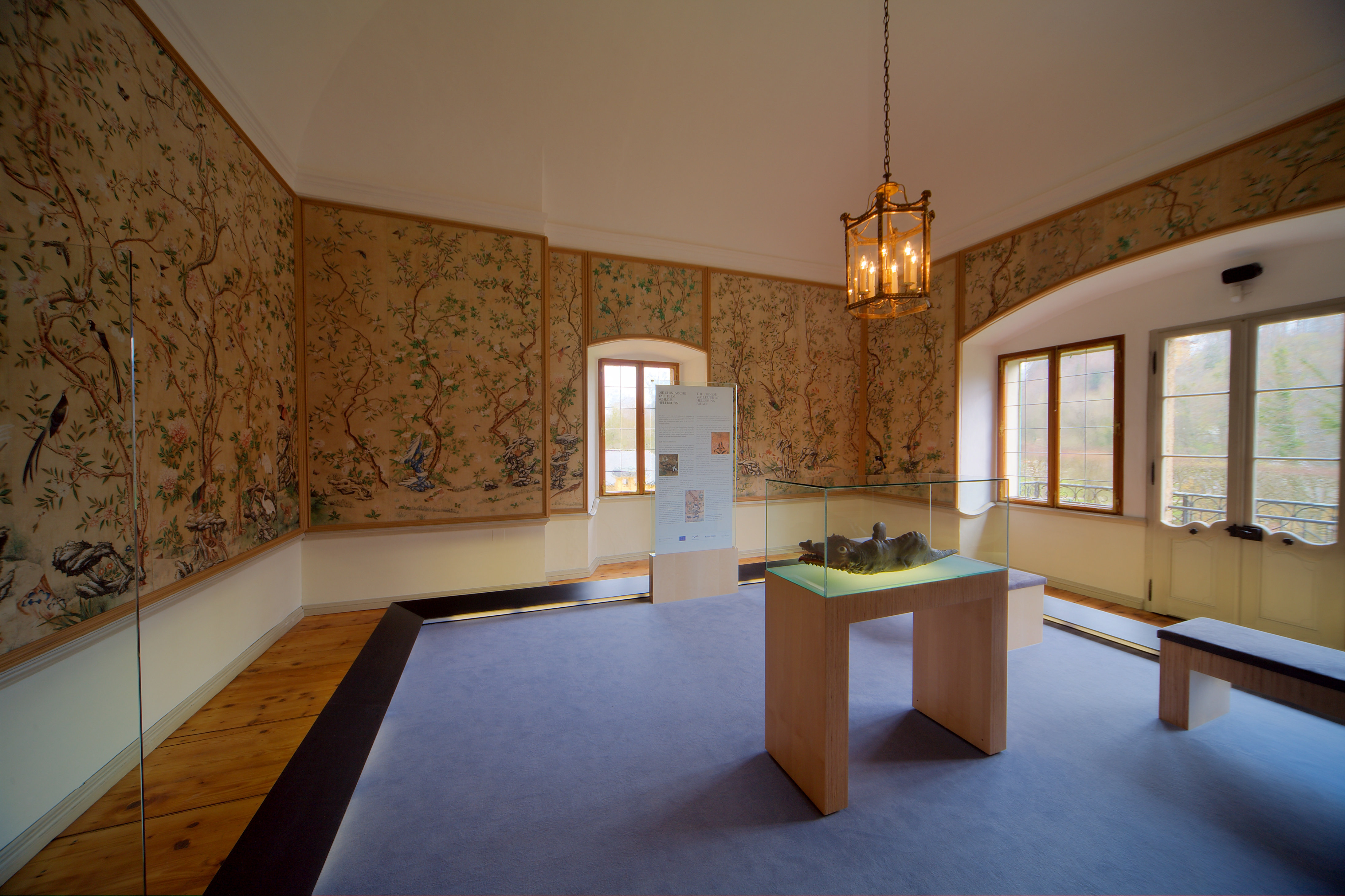 Austria, Salzburg, Hellbrunn Palace